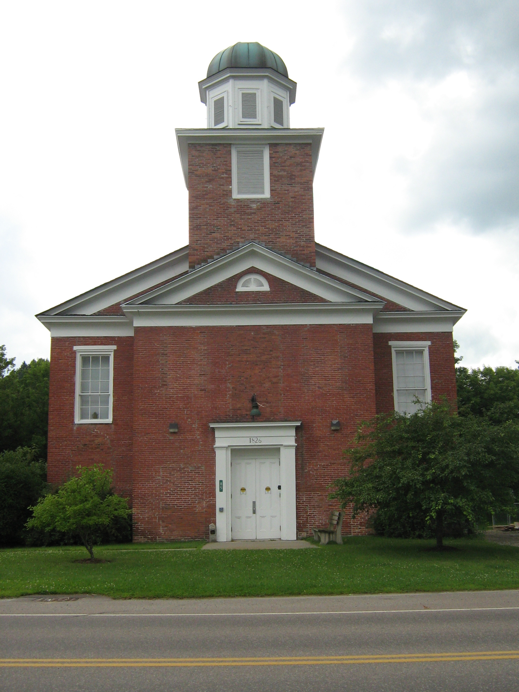 Former multi-denominational church is now the Cambridge Town Offices and US Post Office